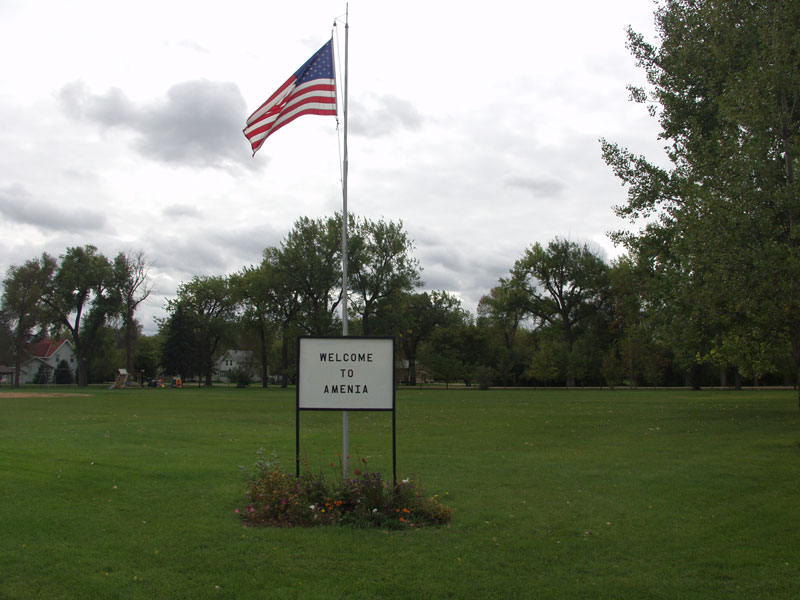 Amenia, North Dakota. From .